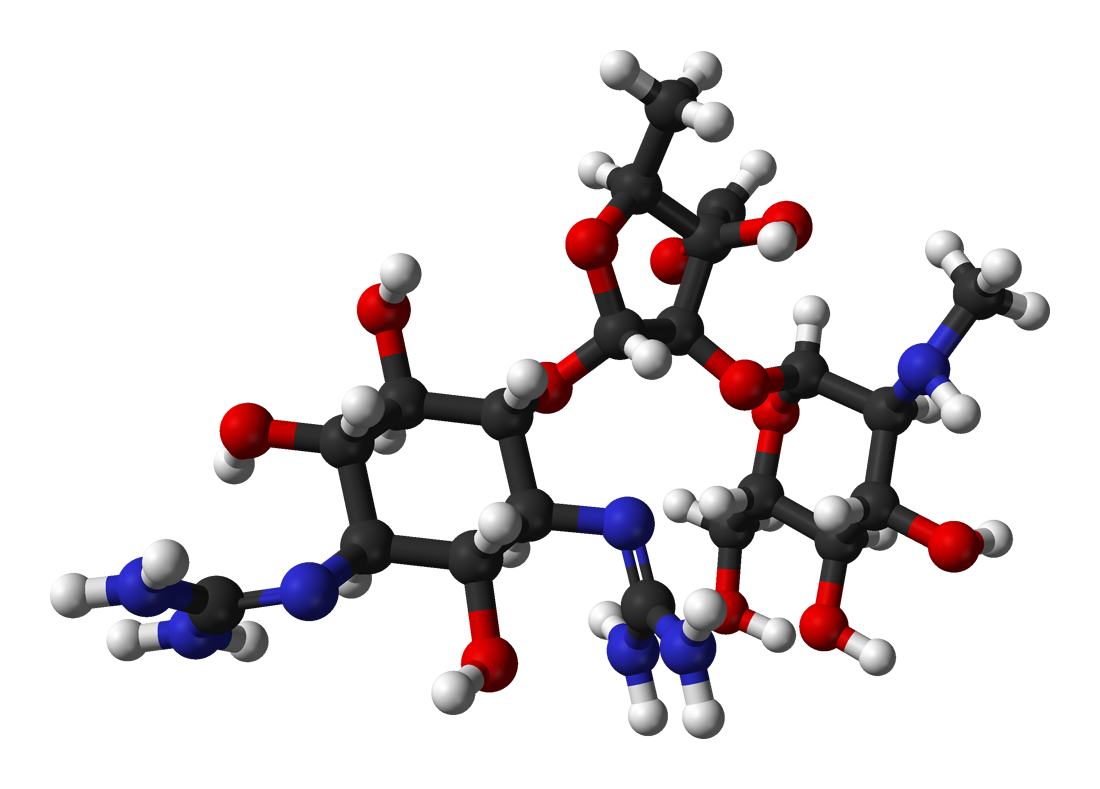 Ball-and-stick model of the streptomycin molecule. X-ray diffraction data from PDB 1ntb, itself from Valentina Tereshko, Eugene Skripkin and Dinshaw J. Patel (January 2003). "Encapsulating Streptomycin within a Small 40-mer RNA". Chemistry & Biology 10 (2): 175-187.